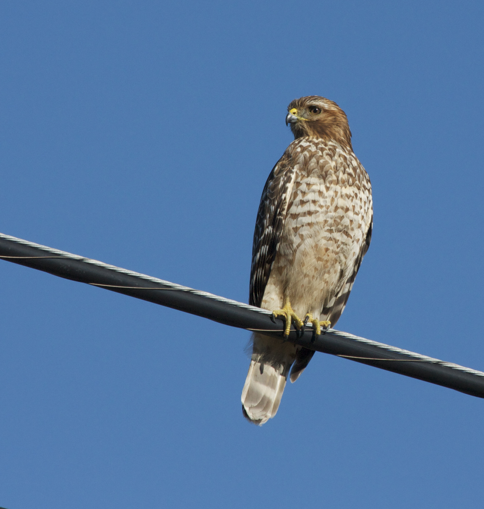 A juvenile Red-shouldered Hawk in Morro Bay, California, USA.